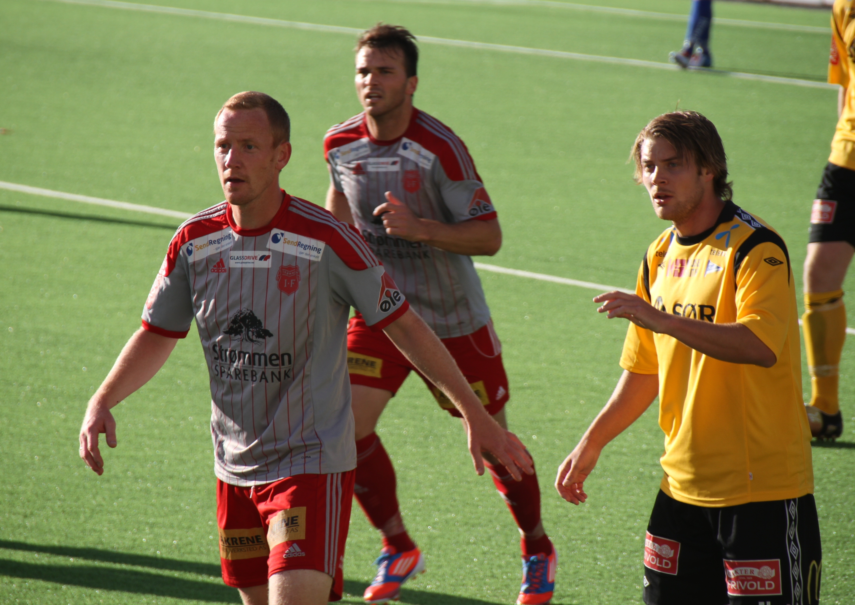 Strømmen IF player Espen Olsen. He is a former HamKam and IK Start player, with two matches for Norway's national team. Photo from match against IK Start at Strømmen stadium, Akershus, Norway.